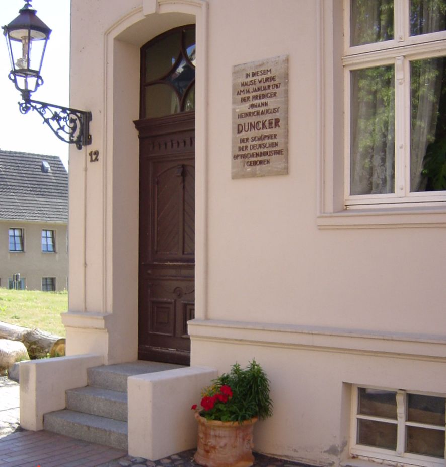 Johann August Duncker, born 1767 in this house in Rathenow, Brandenburg, Germany, the founder of the german optical industry.